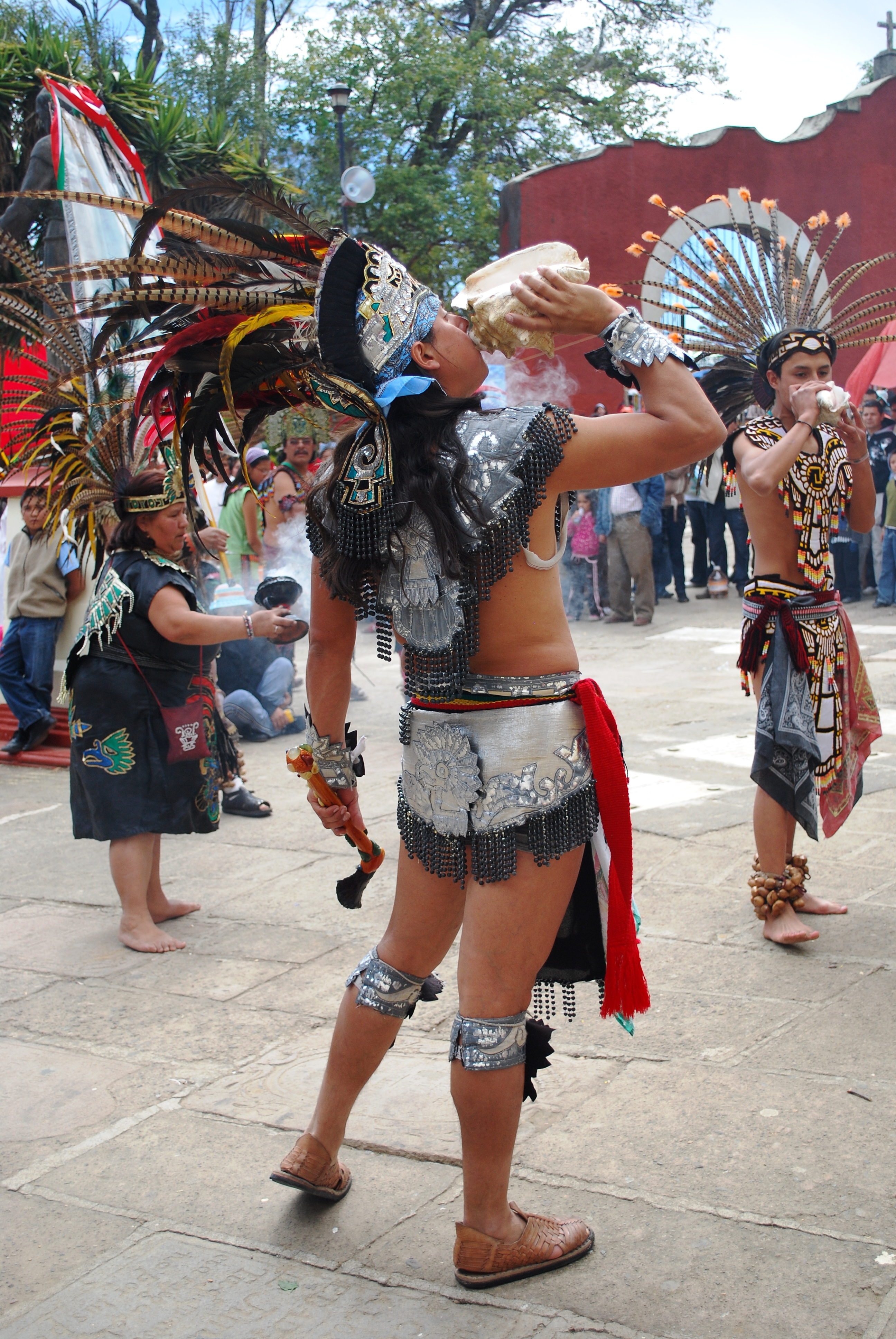 Dancer in Aztec garb blowing a conch shell at the Feast of the Señor del Sacromonte in Amecameca, Mexico State